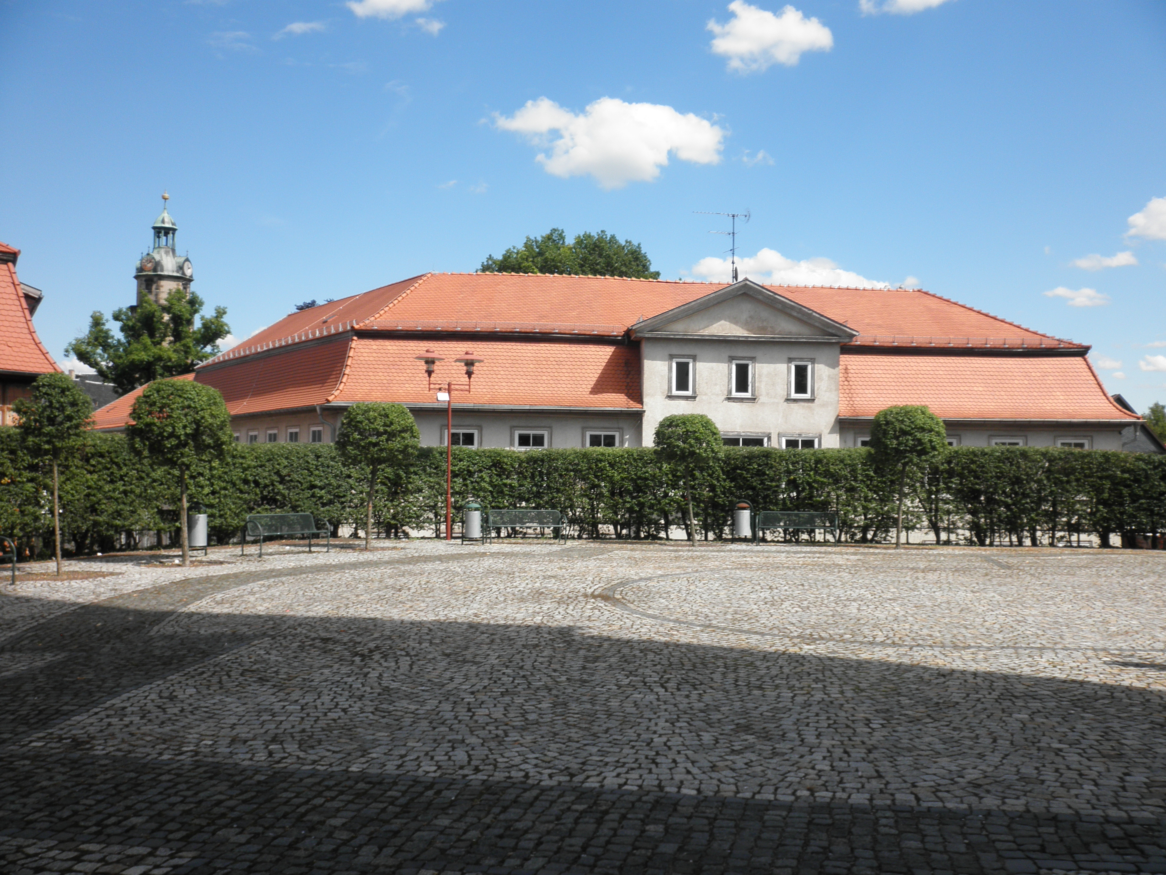 St. Michaels School in Ohrdruf in Thuringia